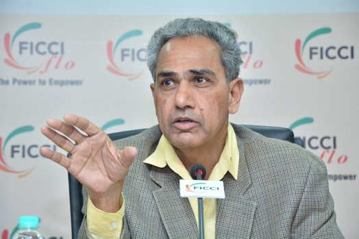 This is a photograph of Member of Parliament from India, Shri. Harish Meena speaking at a FICCI event.